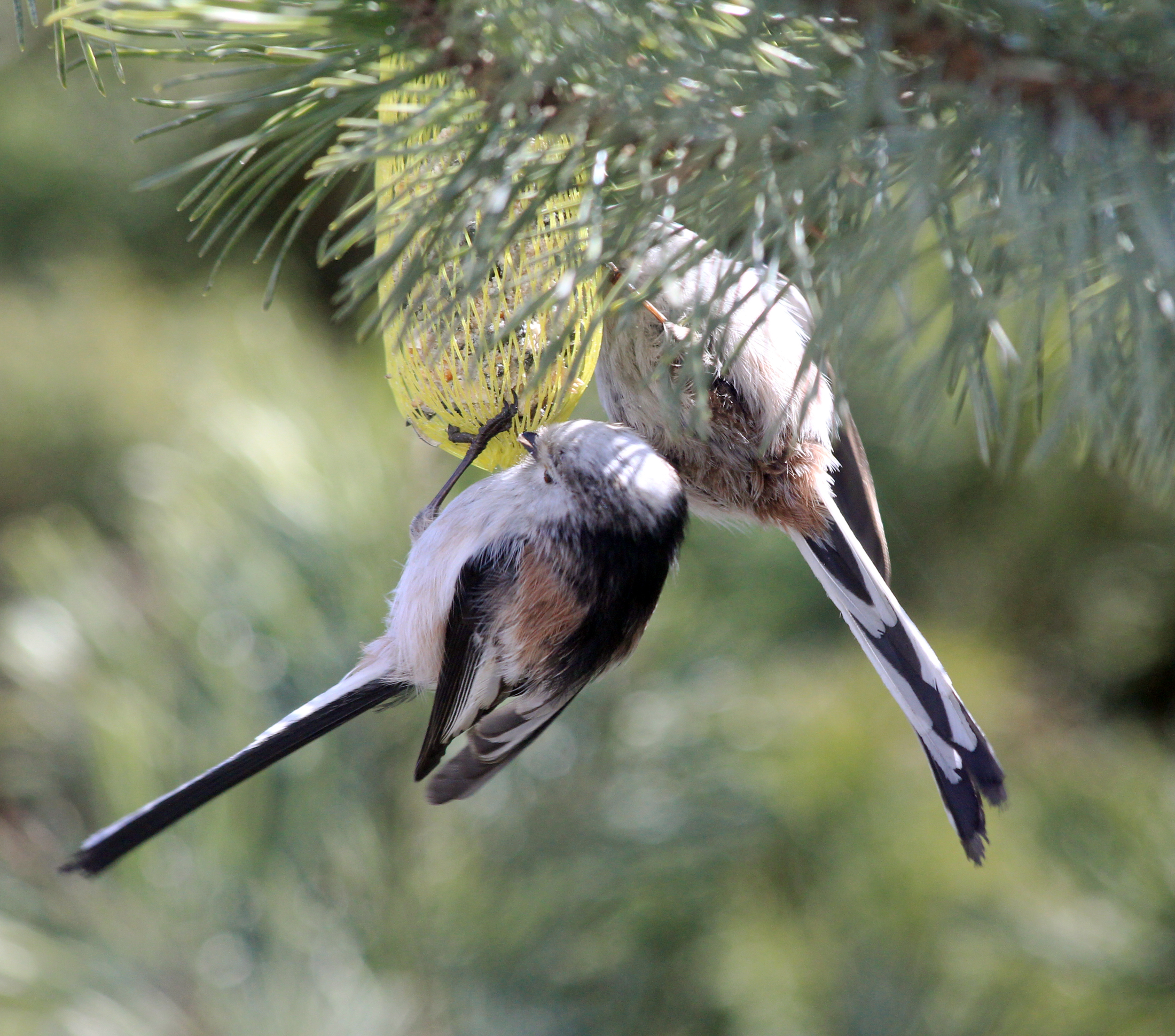 Bird Long-tailed Tit , Aegithalos caudatus in Jaroměř, Czech Republic